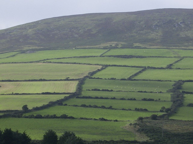 Tumulus on Colden. At the top left is a tumulus (mound). It lies on the south-eastern shoulder of Colden (481.9m) above Ballakewish in the West Baldwin Valley. Picture taking looking west.